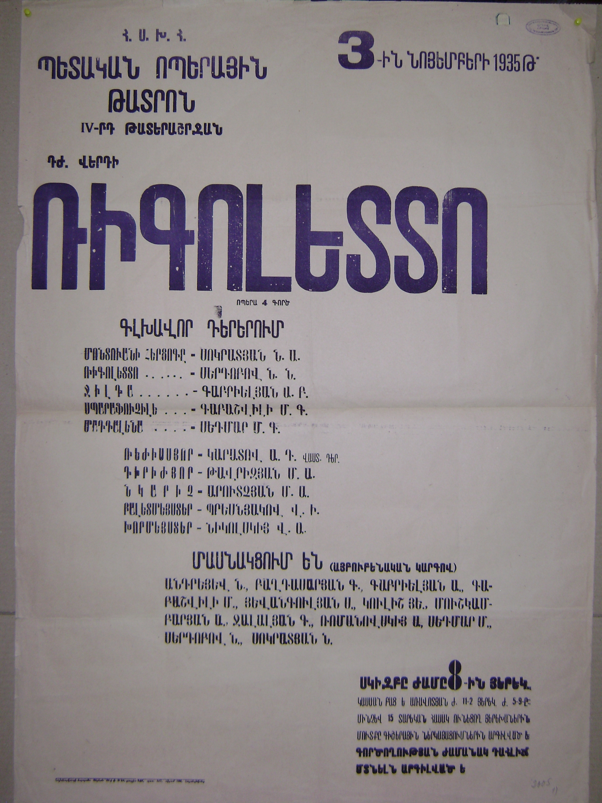 Rigoletto opera poster, November 3, 1935, Yerevan Opera Theatre